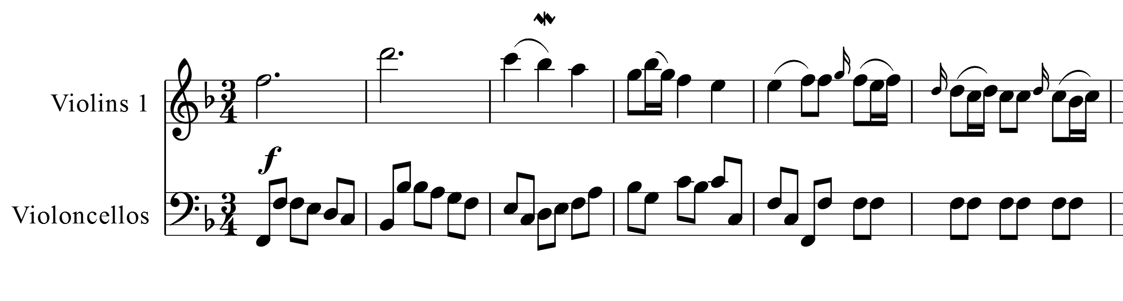 Joseph Haydn, Symphony Nor. 40, first movement, bar 1-6